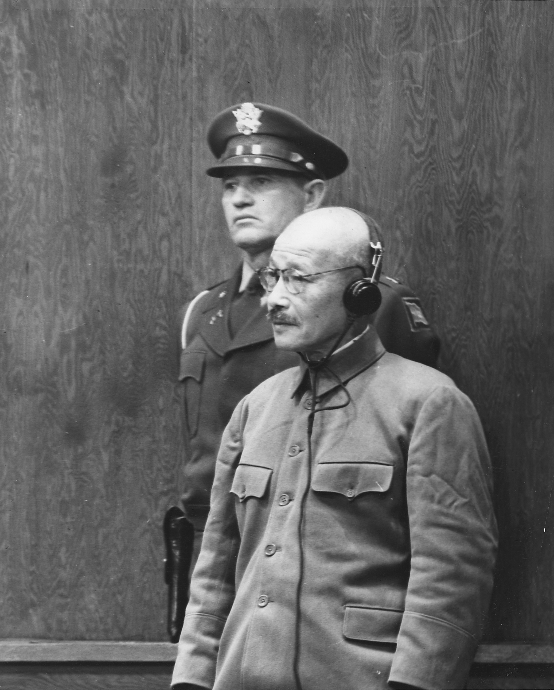 Scope and content: Tojo sentenced to death by hanging read by Chief Justice Sir William Webb (Australia) (not shown) President of the International Military Tribunal for the Far East. Tojo, age 64, was Former General, Premier and War Minister from December 1941 to July 1944. Tokyo. 11/24/48.